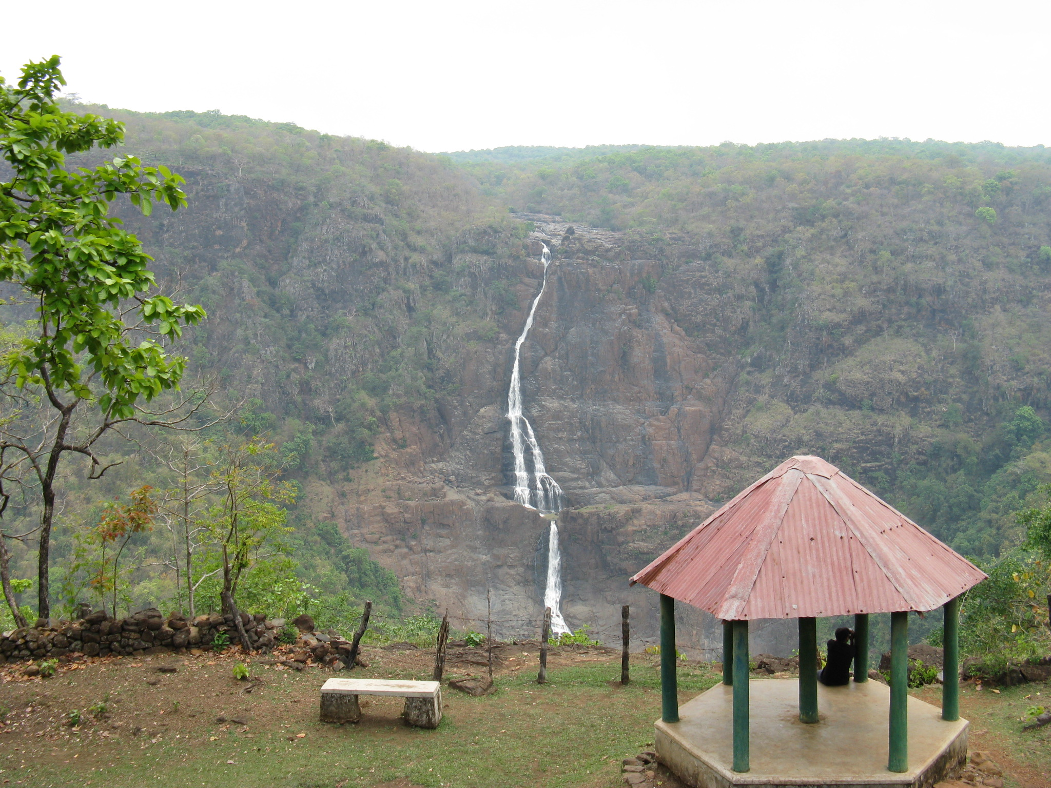 Barehipani Falls, 2nd Highest waterfall in India.